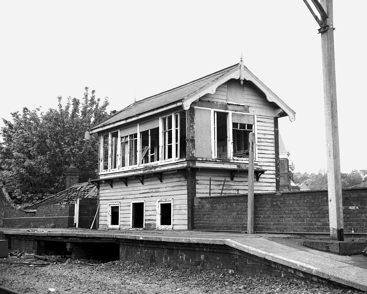 Wadsley Bridge signal box located on the Up platform of the closed Wadsley Bridge station in north Sheffield. Saturday 6th June 1987 Wadsley Bridge signal box was a Manchester Sheffield and Lincolnshire Railway type 4 design fitted with a 30 lever Railway Signal Company Tappet frame which was opened in 1912 by the Great Central Railway, replacing a 28 lever Manchester Sheffield and Lincolnshire Railway type 1 design dating from the 1870s. The lever frame was extended to 41 levers in 1929 and the signal box closed on 11th August 1985 when the line between Woodburn Junction signal box and Deepcar was singled and worked by one train (with no staff) regulations. The signal box remained derelict until the late 1980s